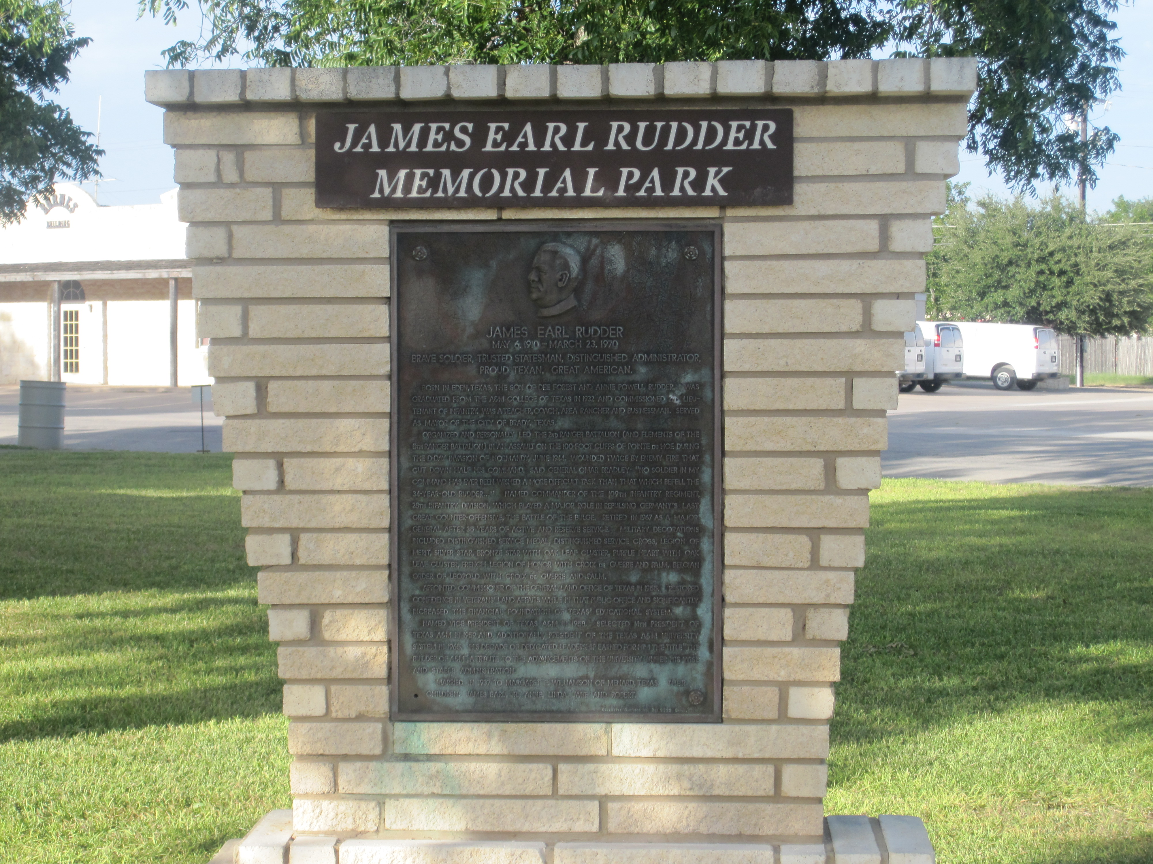 I took photo with Canon camera in Eden, TX.